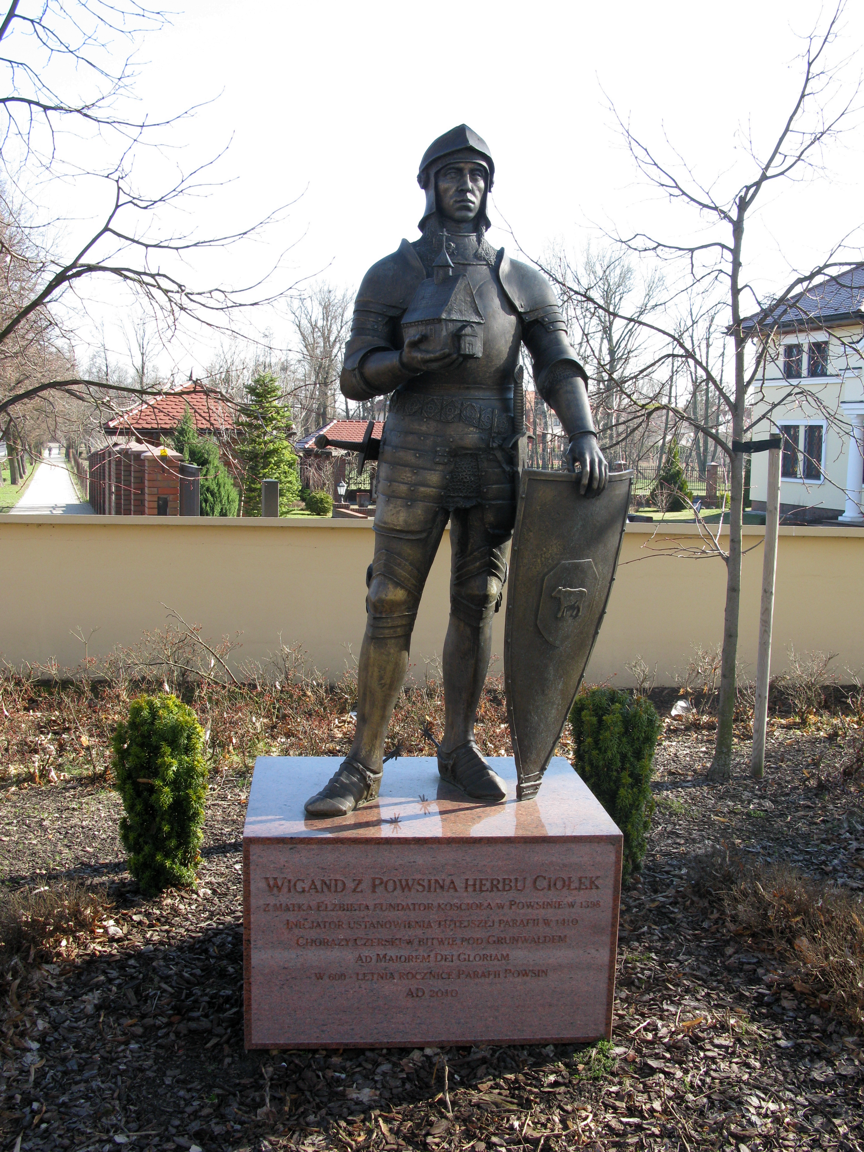 Wigand of Powsin